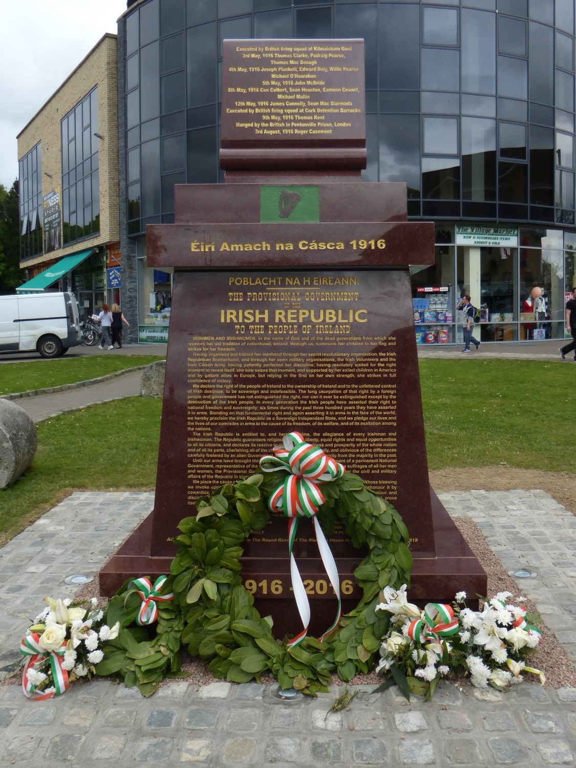 Proclamation memorial monument in Mulhuddart village. Located in the townland of Parlickstown, in the civil parish of Mulhuddart, in the barony of Castleknock.